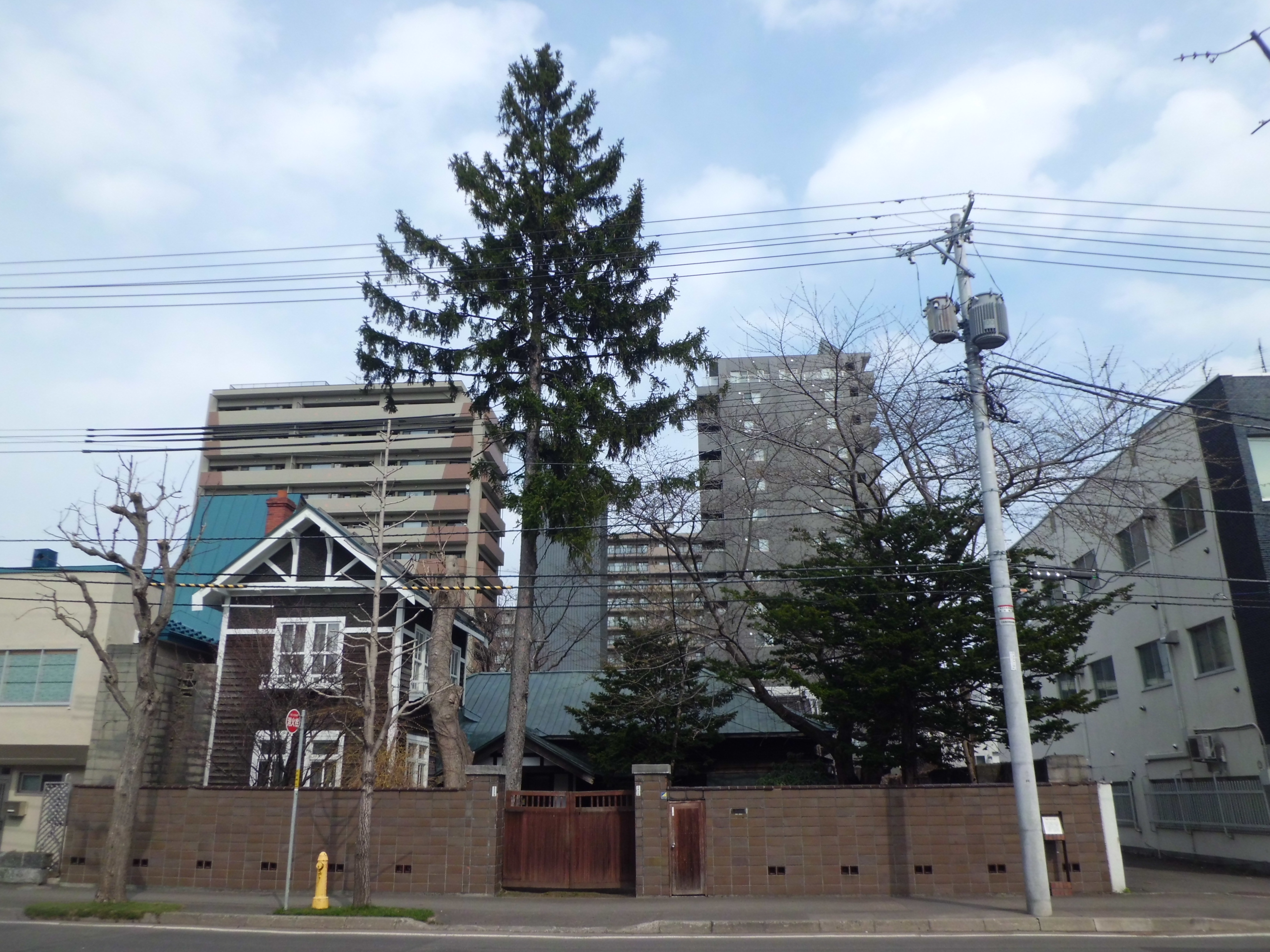 Birth place of Tama Morita, a essayist